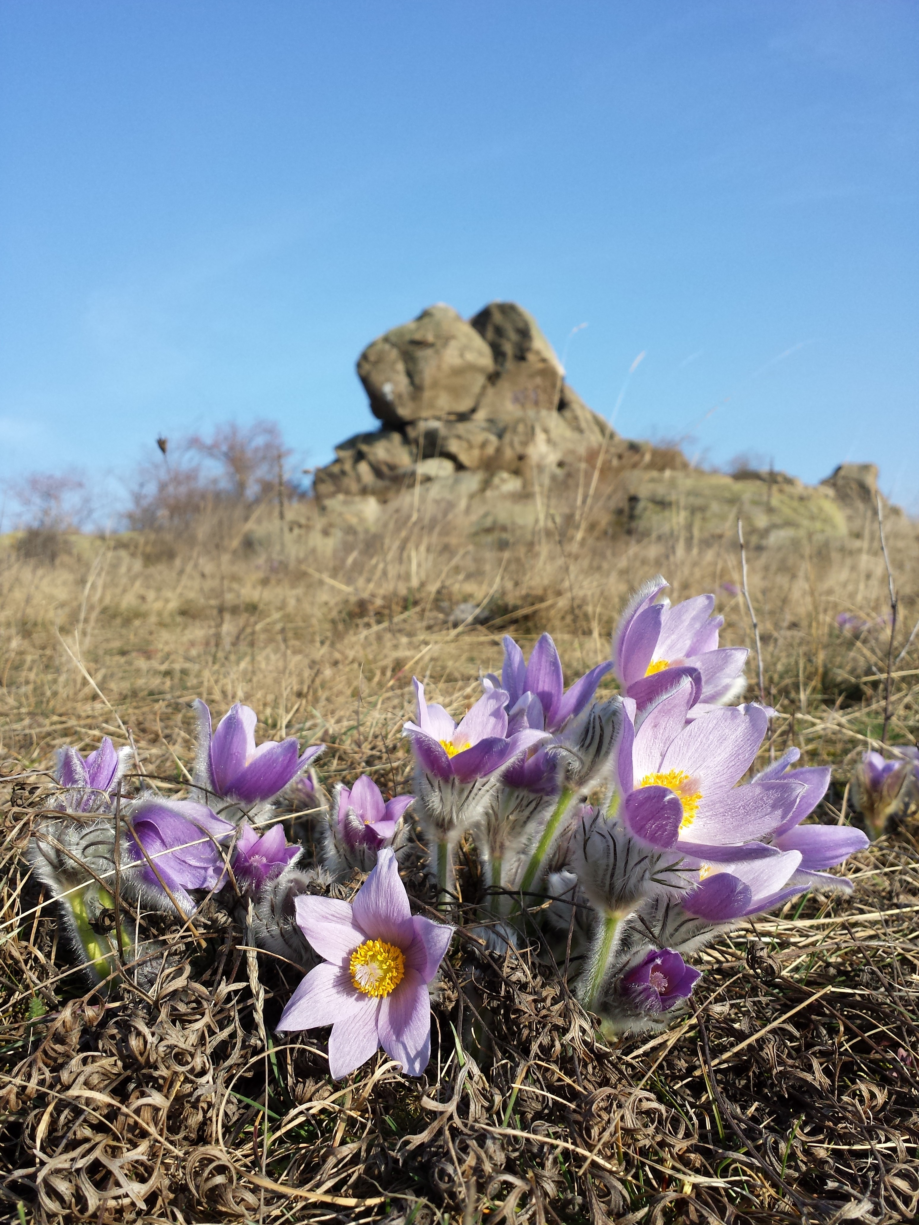 Habitus Taxon: Pulsatilla grandis (sensu Fischer et al. EfÖLS 2008 ISBN 978-3-85474-187-9) Location: nature reserve Kogelsteine-Fehhaube, district Horn, Lower Austria - ca. 330 m a.s.l. Habitat: dry grassland (silicate rock) This media shows the nature reserve in Lower Austria with the ID 68. This media shows the natural monument in Lower Austria with the ID HO-049.